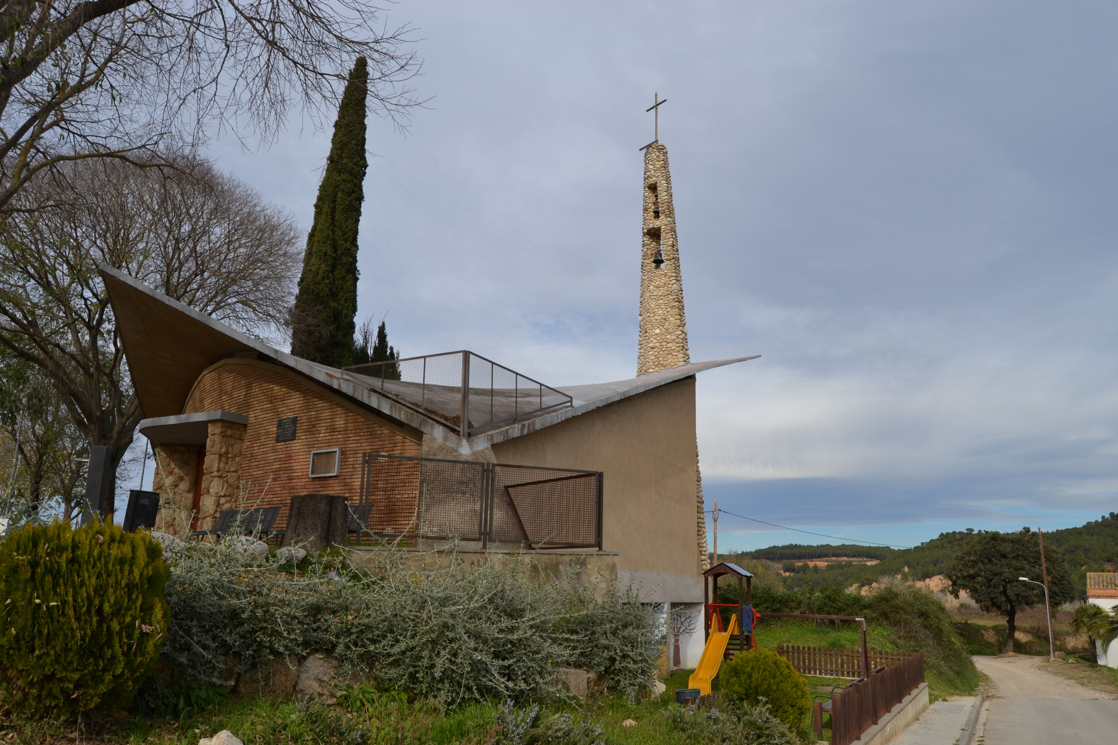 Church in Piera, Catalonia, Spain